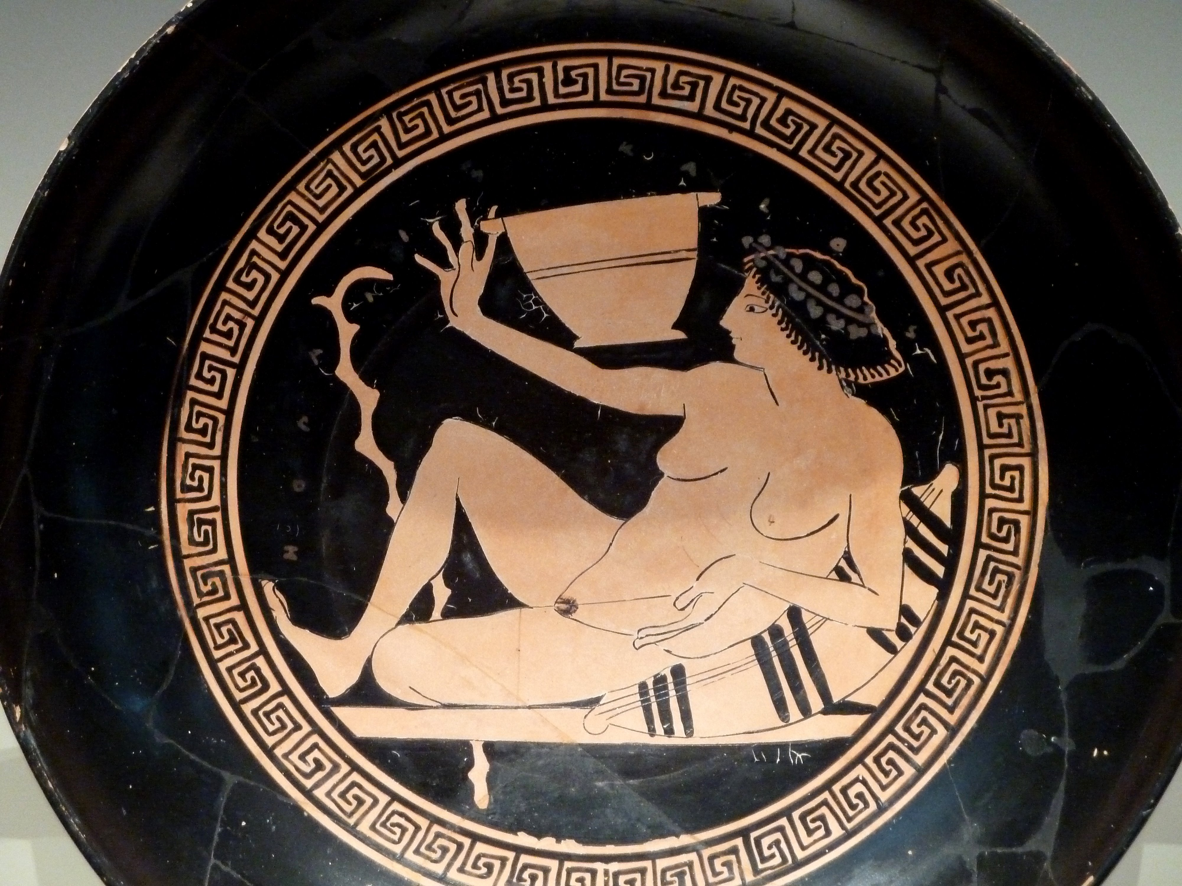 Kylix with a woman playing a game (Greek, Athens, c. 500 BC). A Hetaira holding a large cup like a symposiast (reveler) playing kottabos (a drinking party game where men flicked the dregs of their wine at a target).